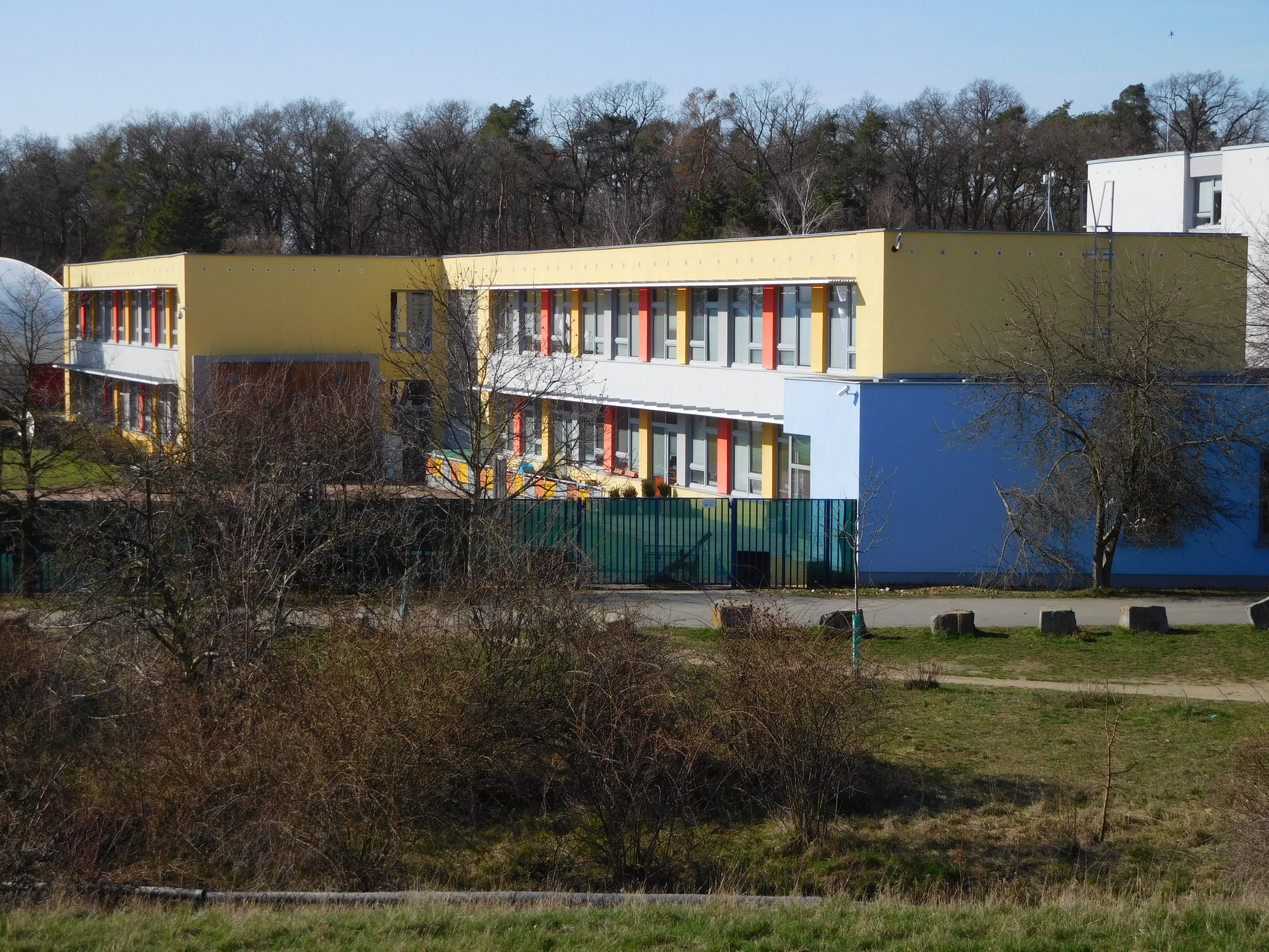 Praha - Kamýk, K lesu 2, Prague British International School